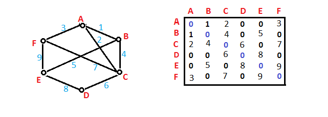 Ma trận trọng số vô hướng